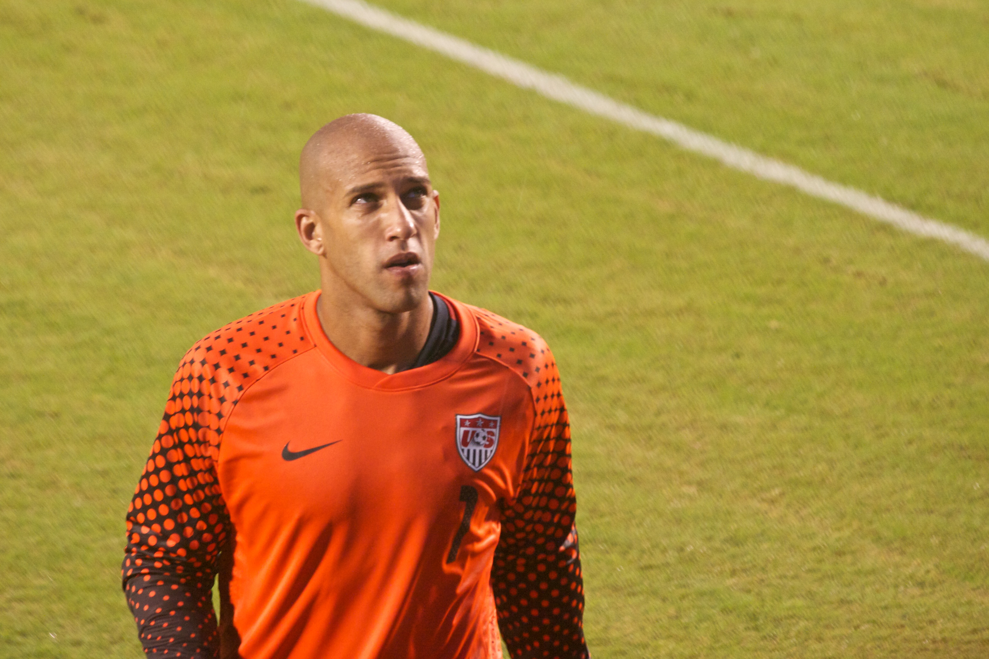 USA - Honduras 5